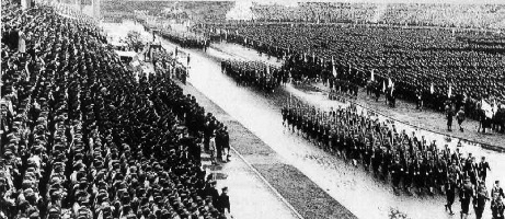 Gakuto shutusjin